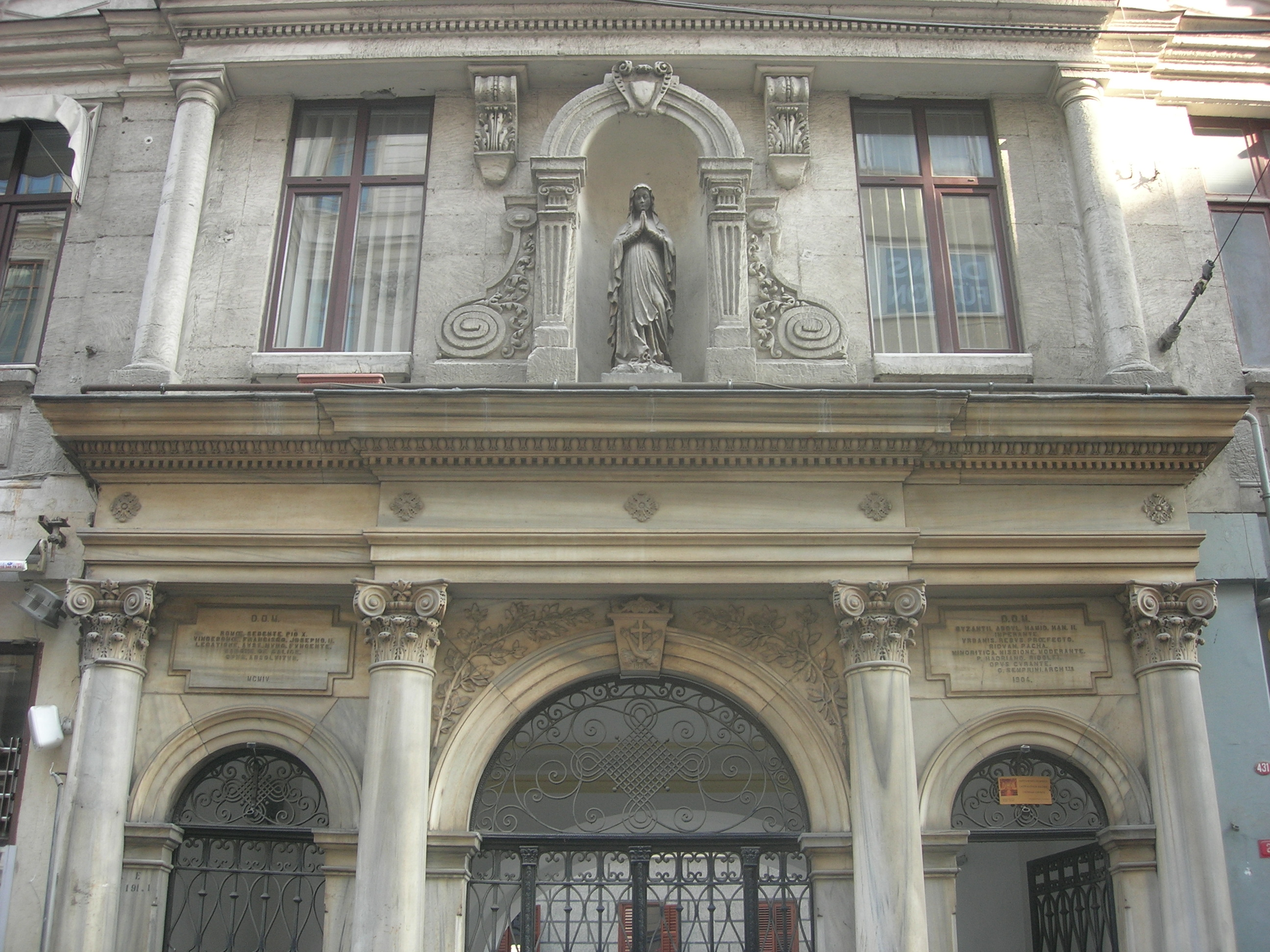 The Entrance of the Church of Santa Maria Draperis on Istiklal Caddesi in Istanbul